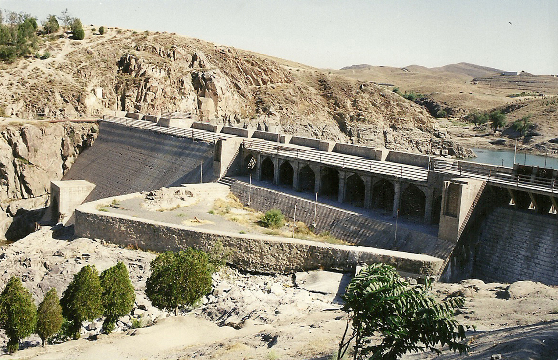 Golestan dam located in Mashhad, Iran.